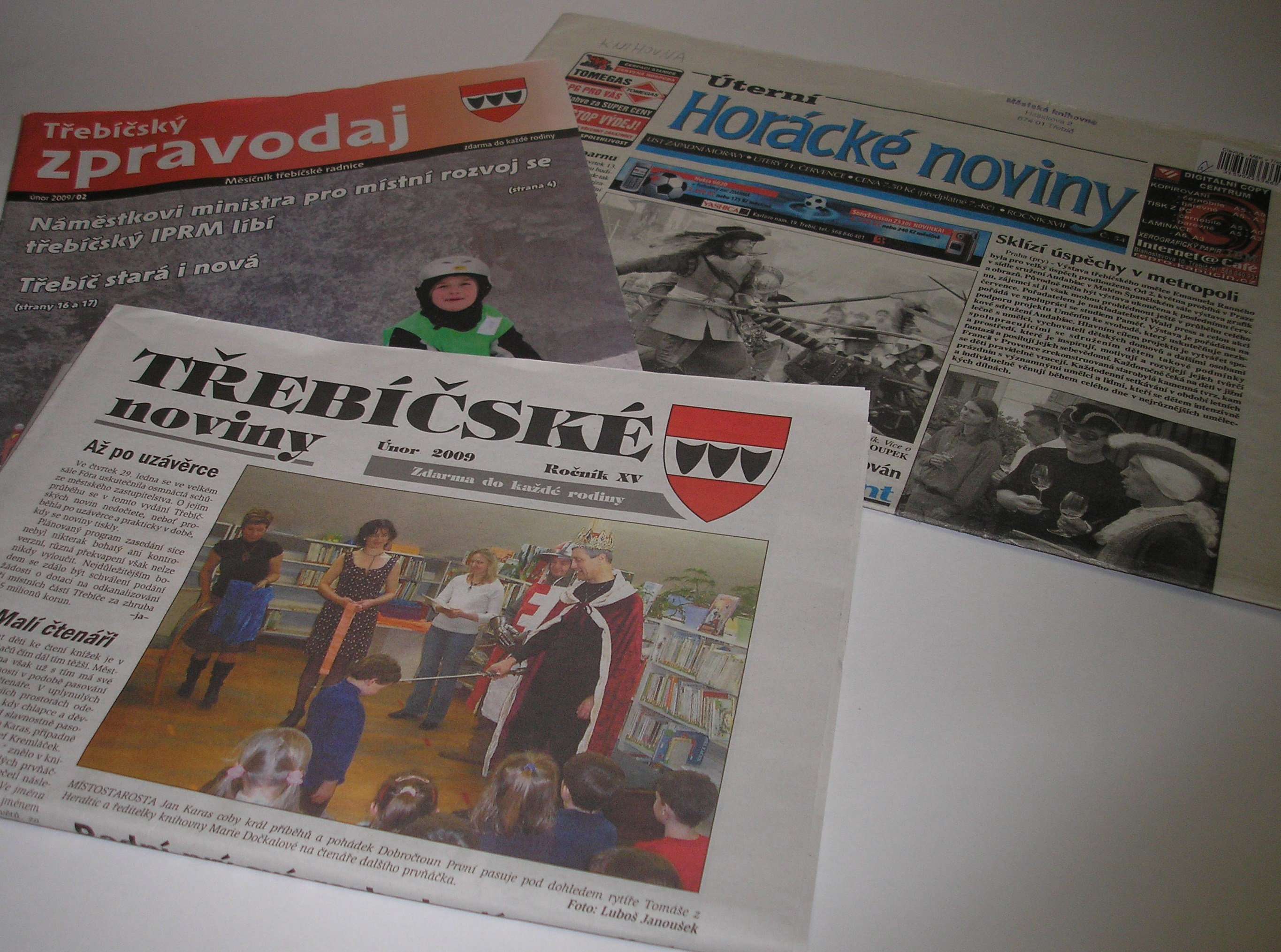 Some newspapers form Třebíč